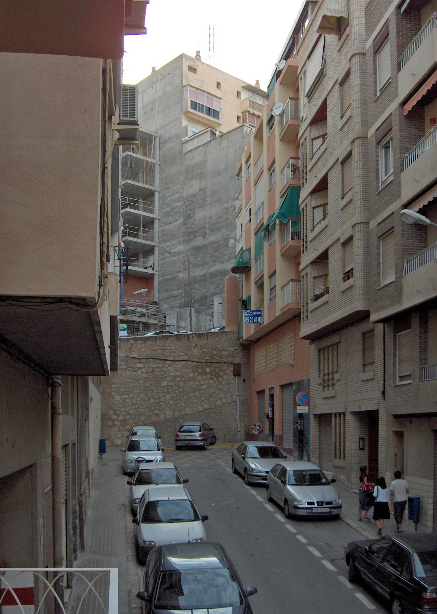 Carrer Pare Mariana, Alicante, Spain.